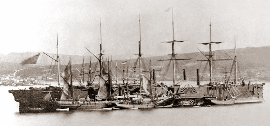 Great Eastern at Hearts Content, July 1866